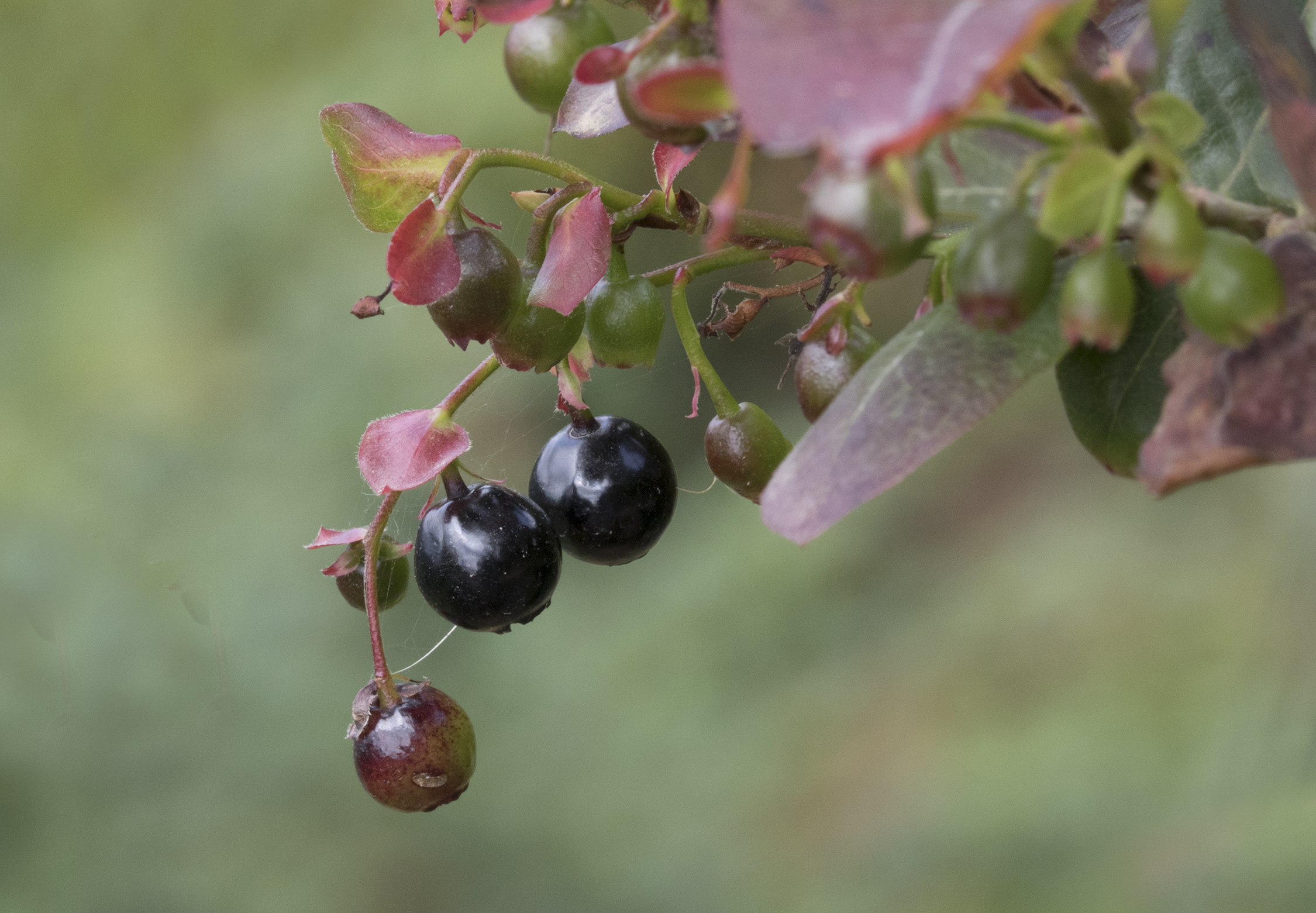 Berries of Bilberry (Vaccinium myrtillus). Espiye - Giresun, Turkey.